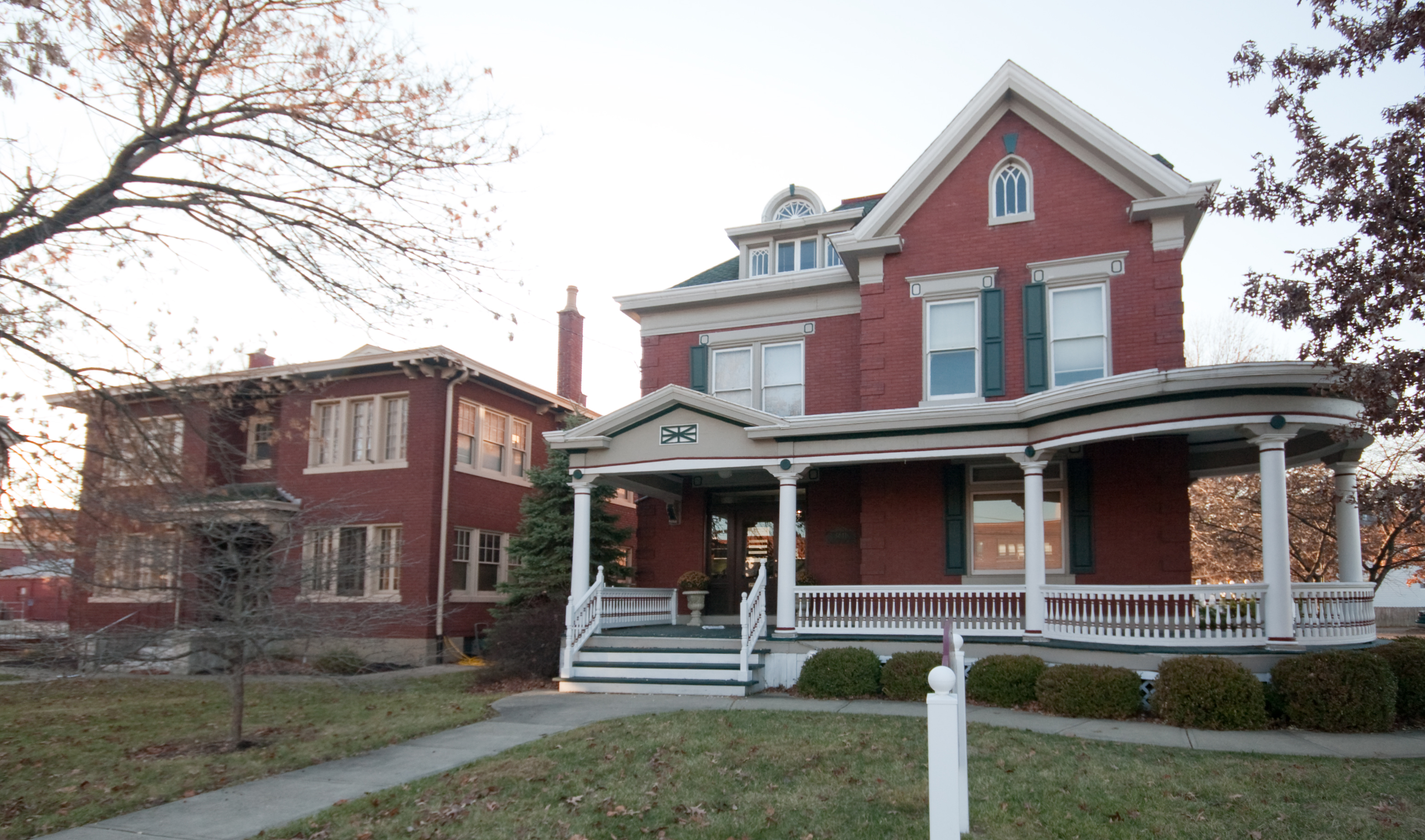 Ritte's Corner Historic District Latonia in Covington, Ky Attribution: Photo by Greg Hume